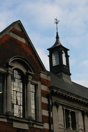 A close up of the Central Museum, Southend, which was originally built in the Edwardian period to serve as a library for the town. The Museum is situated on Victoria Avenue. It is operated by Southend Museums Service, part of Southend-on-Sea Borough Council.